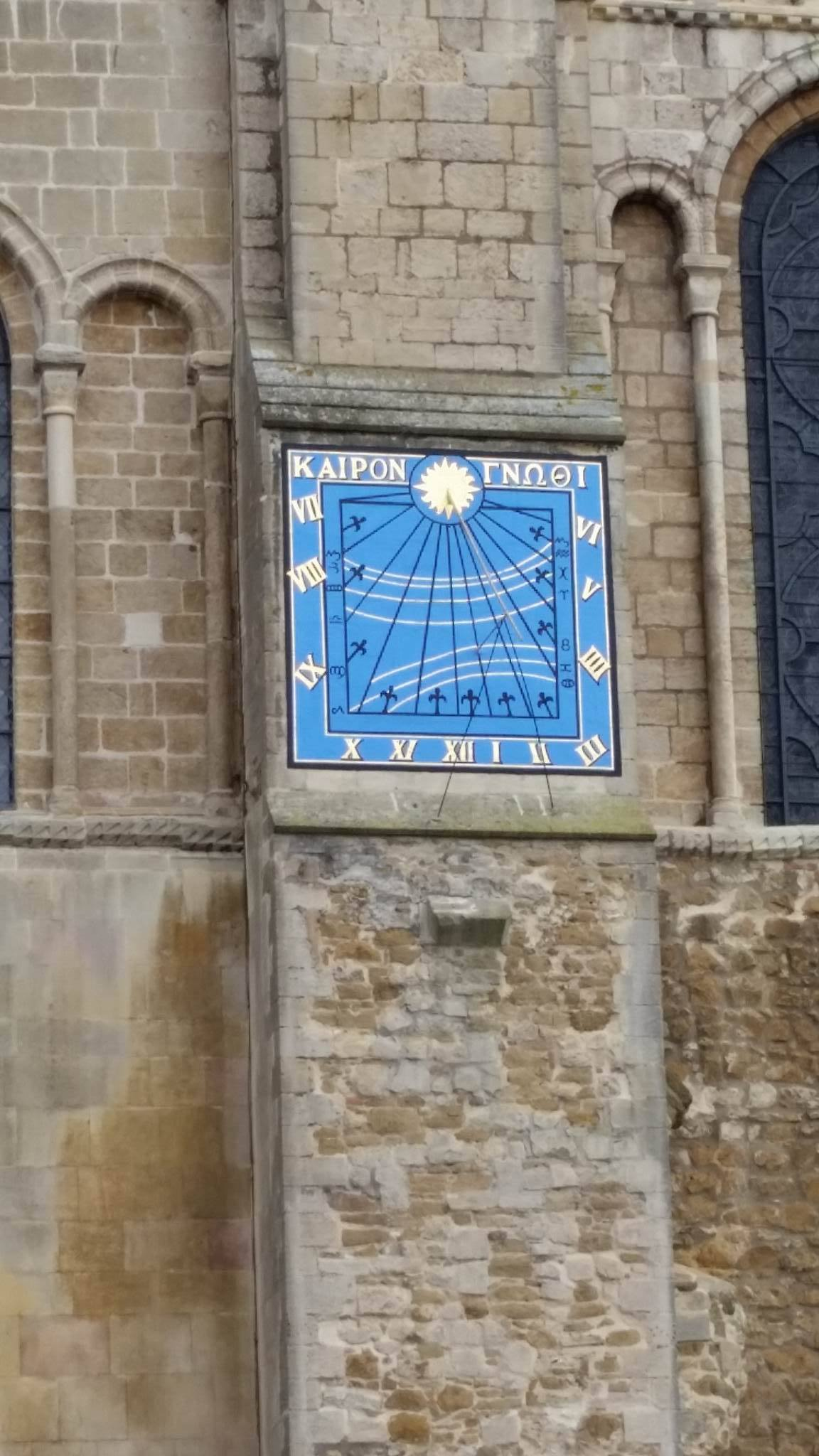 Sundial on south transept wall of Ely Cathedral, Cambridgeshire, England